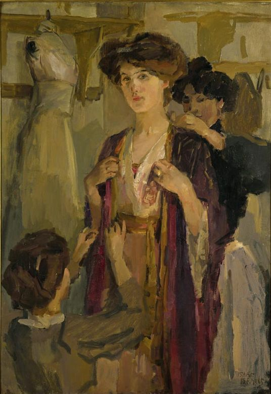 Essayeuses chez Paquin